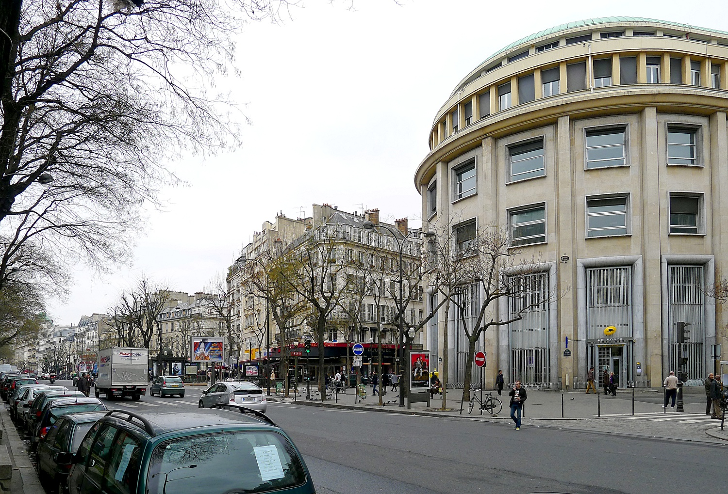 Bonne-Nouvelle boulevard - Paris